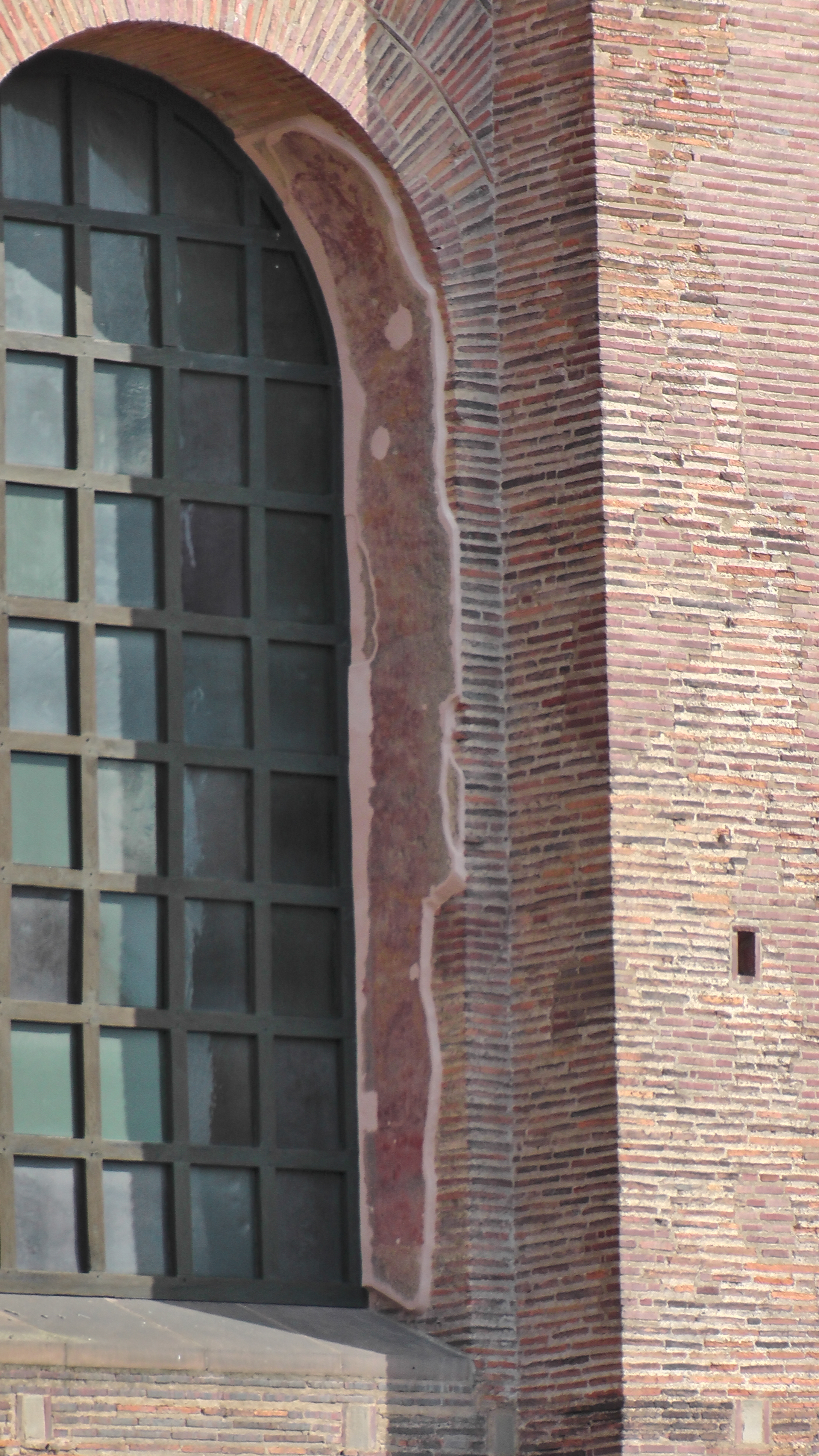 Roman plaster remains on the outside of the west wall